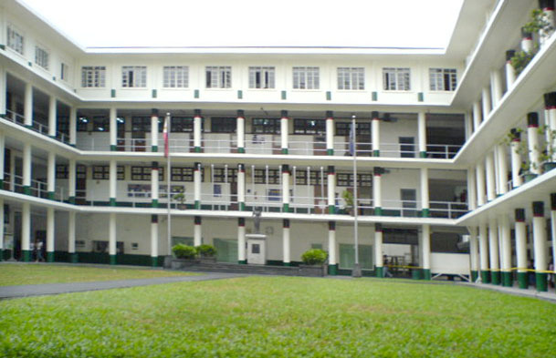 SFC quadrangle and Luwalhati Monument at University of the East, Metro Manila, Philippines